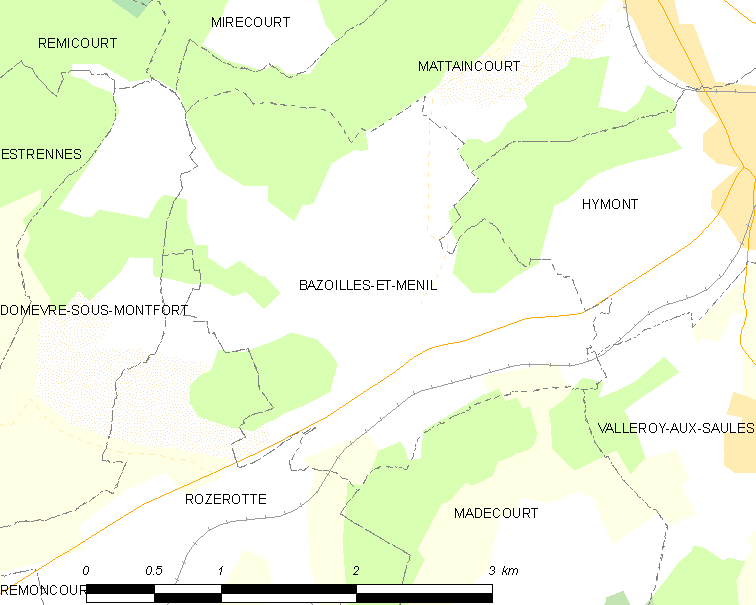 Map of French municipality Bazoilles-et-Ménil